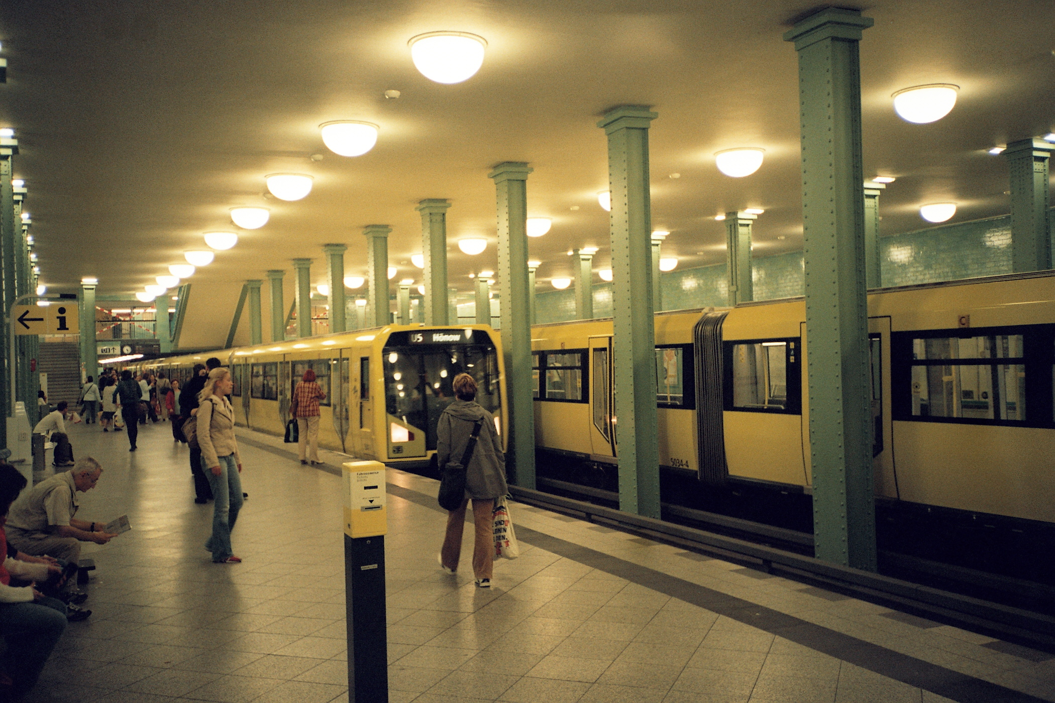 Description: View on the subway station Alexanderplatz with the U-5 train. Source: self-made. I release it into the public domain.